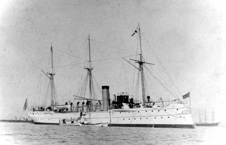 Photo #: NH 82133 USS Concord (Gunboat # 3) In San Francisco Bay, California, circa the 1890s. Collection of Lieutenant Commander Abraham DeSomer, donated by Myles DeSomer, 1975. U.S. Naval Historical Center Photograph. Note: The subject of this photograph was originally identified as USS Bennington (Gunboat # 4). However, the ship's distinctive bow decoration confirms that she is actually Concord.